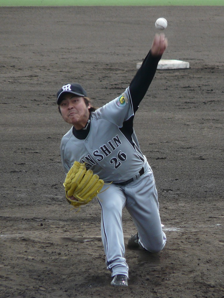 HT-Hirotaka-Egusa20100505